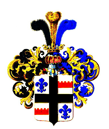 Coat of Arms of Ellis family